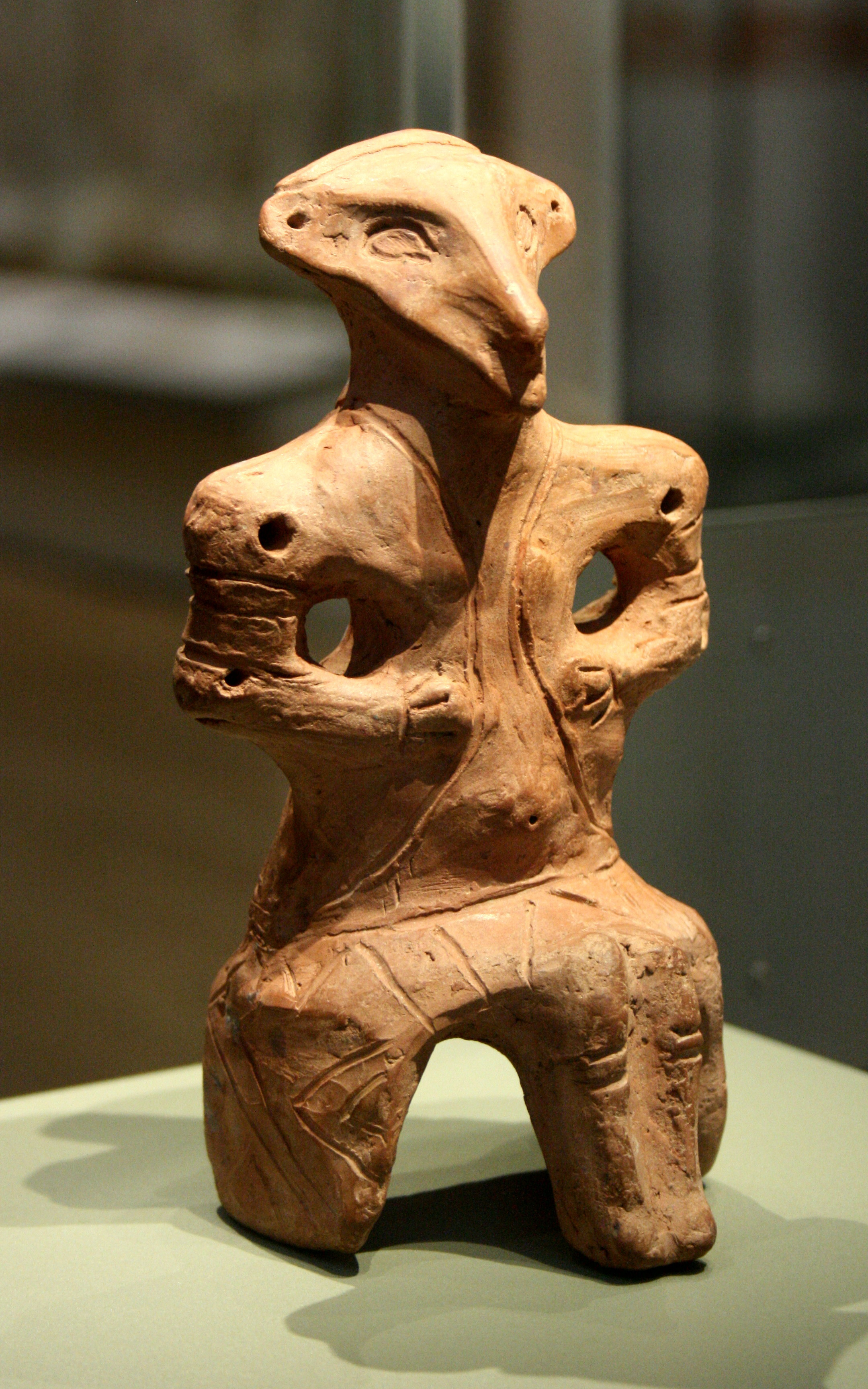 Seated fired clay figurine. Late Neolithic (4500-4000 BC). Vinča (Serbia). Household deity (?)